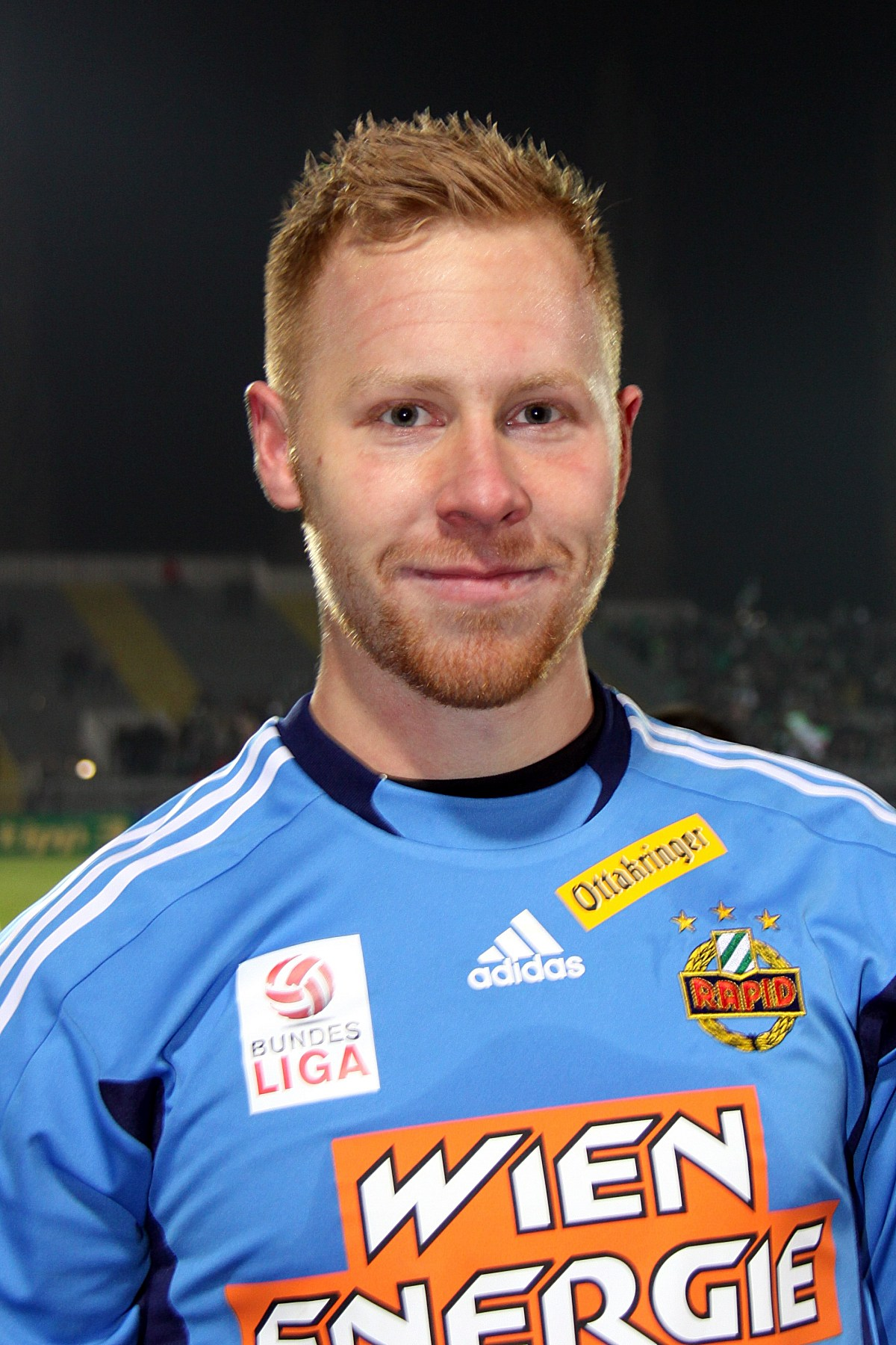 SV Mattersburg (green shirts) vs SK Rapid Wien (white shirts) 1:2 (1:0) – The foto shows goalkeeper Lukas Königshofer (SK Rapid Wien) in his 1st match in the profi-team.